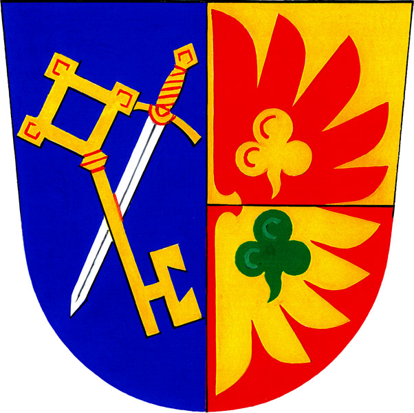 Municipal coat of arms of Milonice village, Vyškov District, Czech Republic.